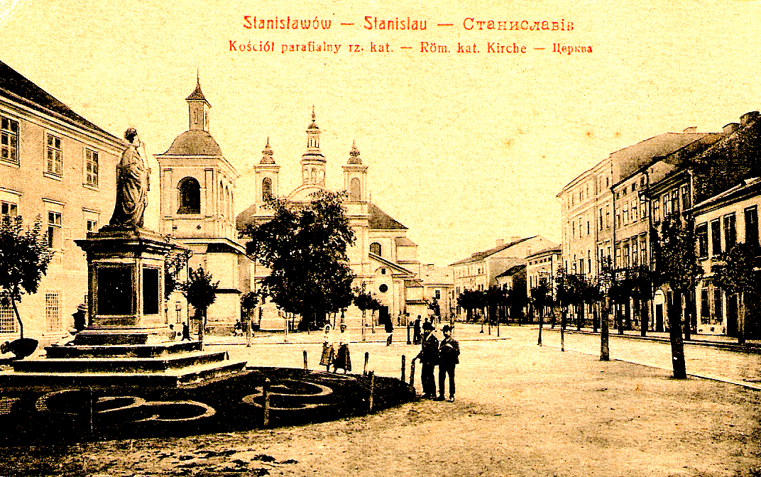 Stanisławów, the Roman Catholic Cathedral and the monument to the Emperor Francis I